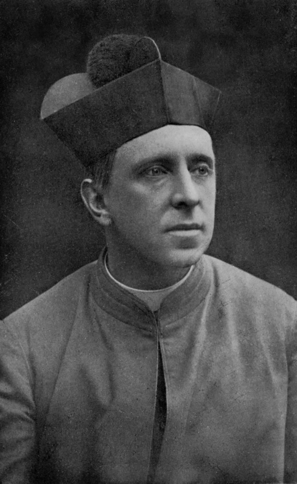 Monsignor R. H. Benson, Oct., 1912, age 40. Photograph published in The Life of Monsignor Robert Hugh Benson, by C.C. Martindale, S.J., Longmans, Green and Co., London, 1916.